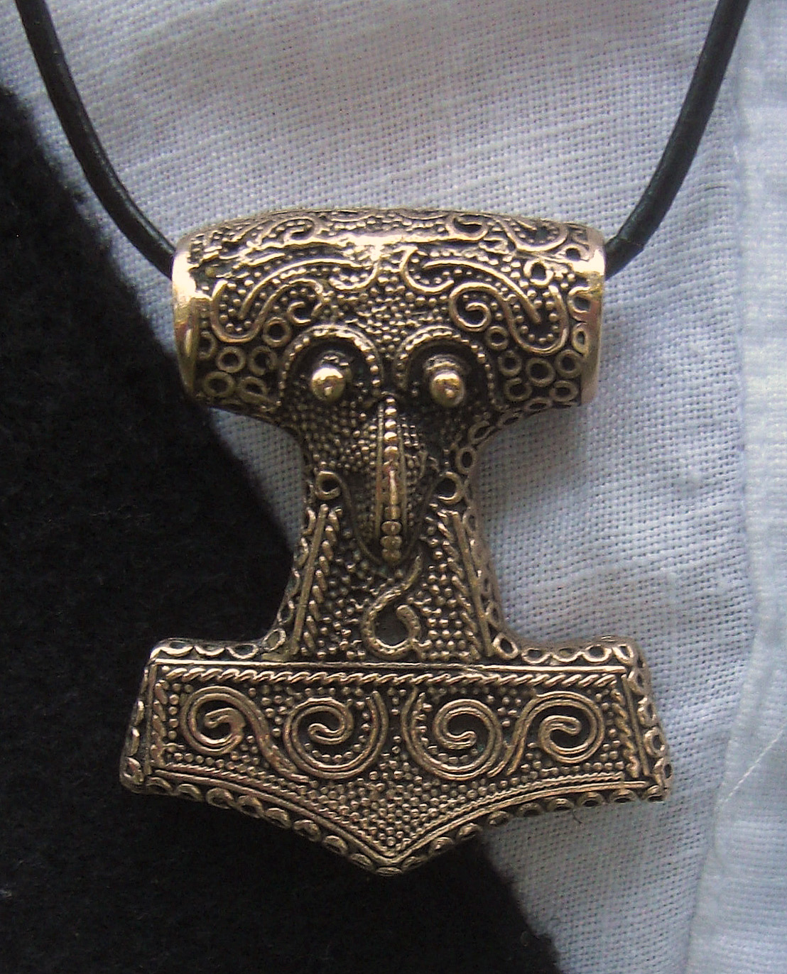 Amulet of Thor's hammer (Mjolnir) worn by a Swedish practioner of Forn Sed and member of Forn Sed Sweden (former Swedish Asatru Assembly).The hammer is a commercial copy of an archaeological find from Skåne, Sweden. The original hammer is of silver with filigree ornamentation and was found in an unknown place in Skåne and did belong to a collecton owned by the baron Claes Kurck, but was donated to the Historical Museum in Stockholm in the year 1895. Unreliable sources says that the hammer was found in Kabbarp near Staffanstorp in Skåne, Sweden.